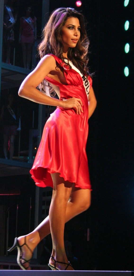 Jessica Jordan Burton, Miss Bolivia 2007, during rehearsals for the Miss Universe 2007 pageant in Mexico City, Mexico